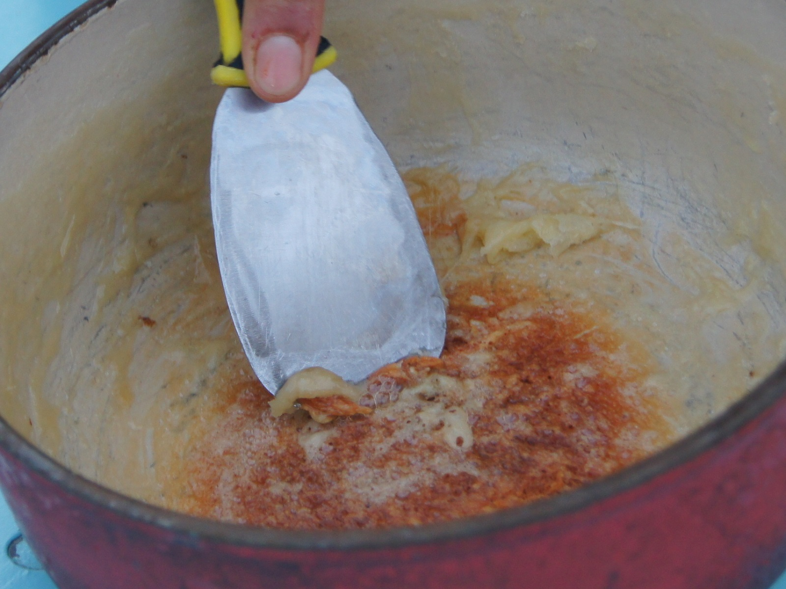 Religieuse, the last portion of cheese fondue (Bains des Pâquis, Geneva)